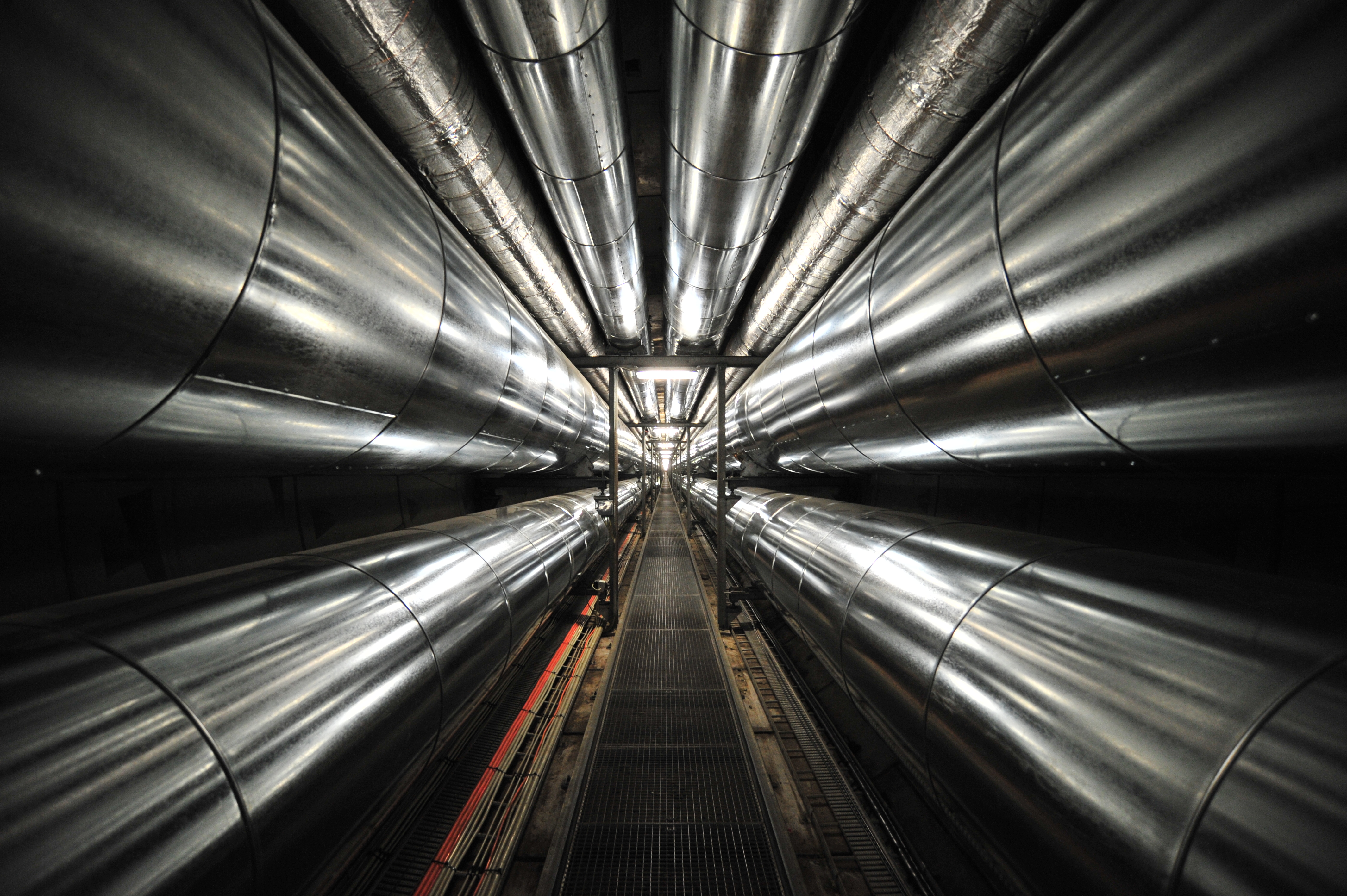 Picture from the tunnel between Rigshospitalet (National Hospital) in Copenhagen and Amagerværket (Amager Powerplant) in Amager. The tunnel transfers heated water and steam for the city.